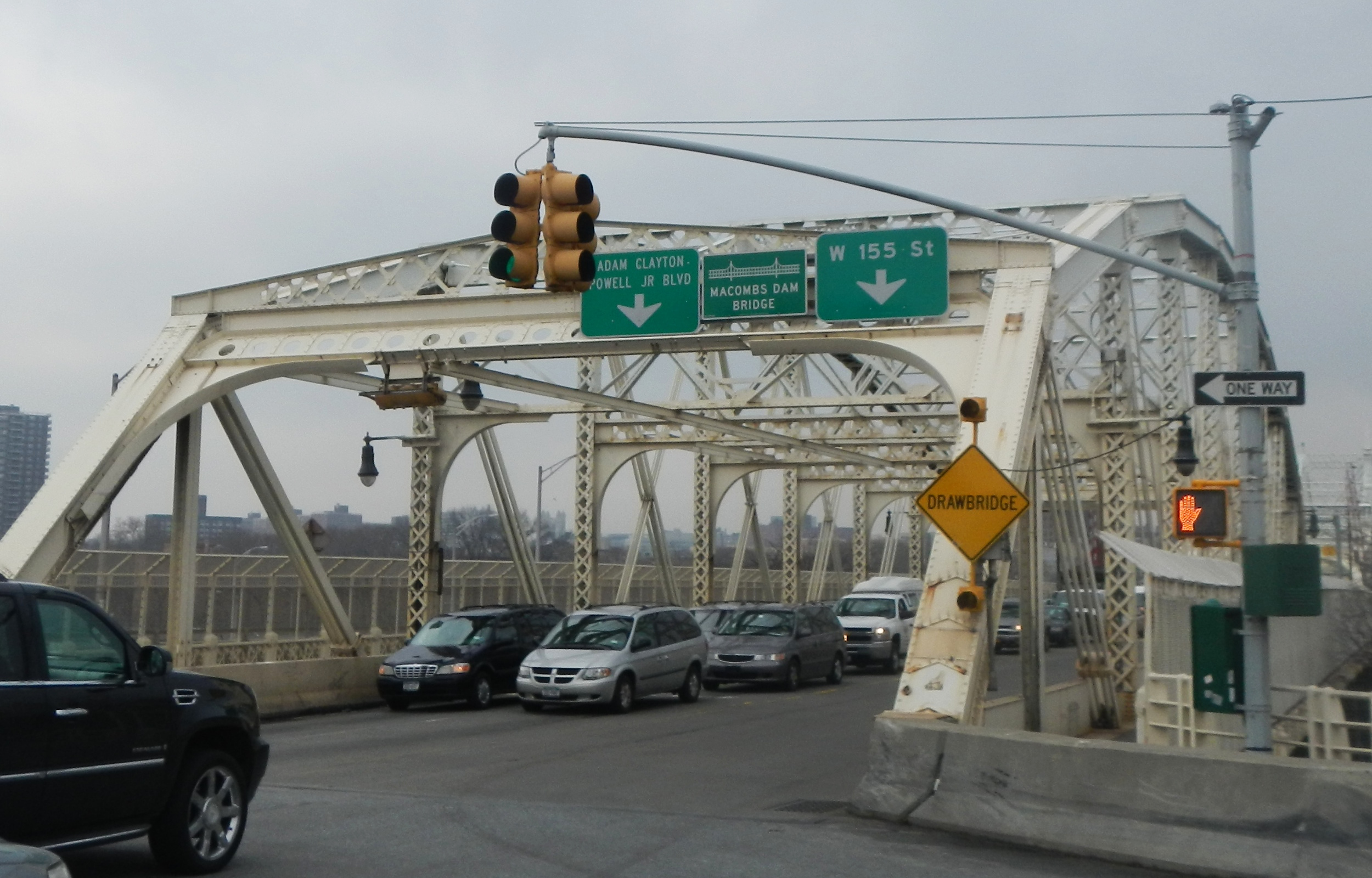 Looking west at Bronx end of Macombs Dam bridge on a cloudy day.